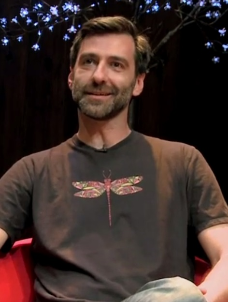 Spanish Actor & TV Presenter Javi Martín